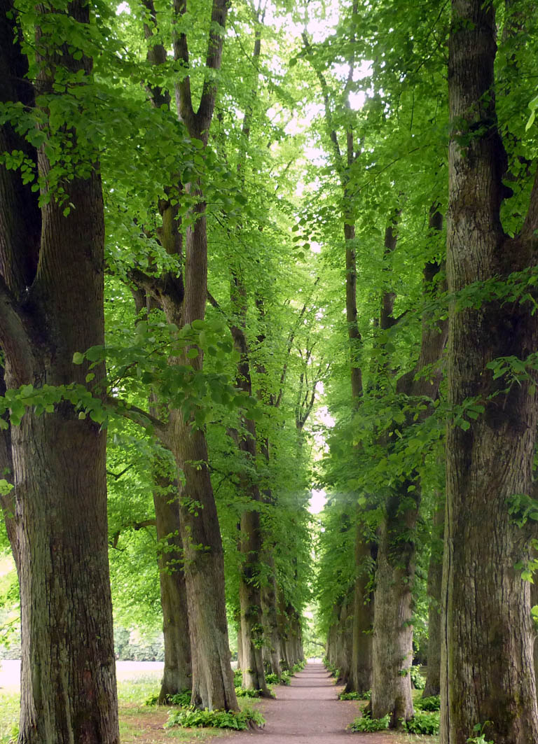 Lindenalley in the Hirschpark in Hamburg-Blankenese. Maybee 200 years old.